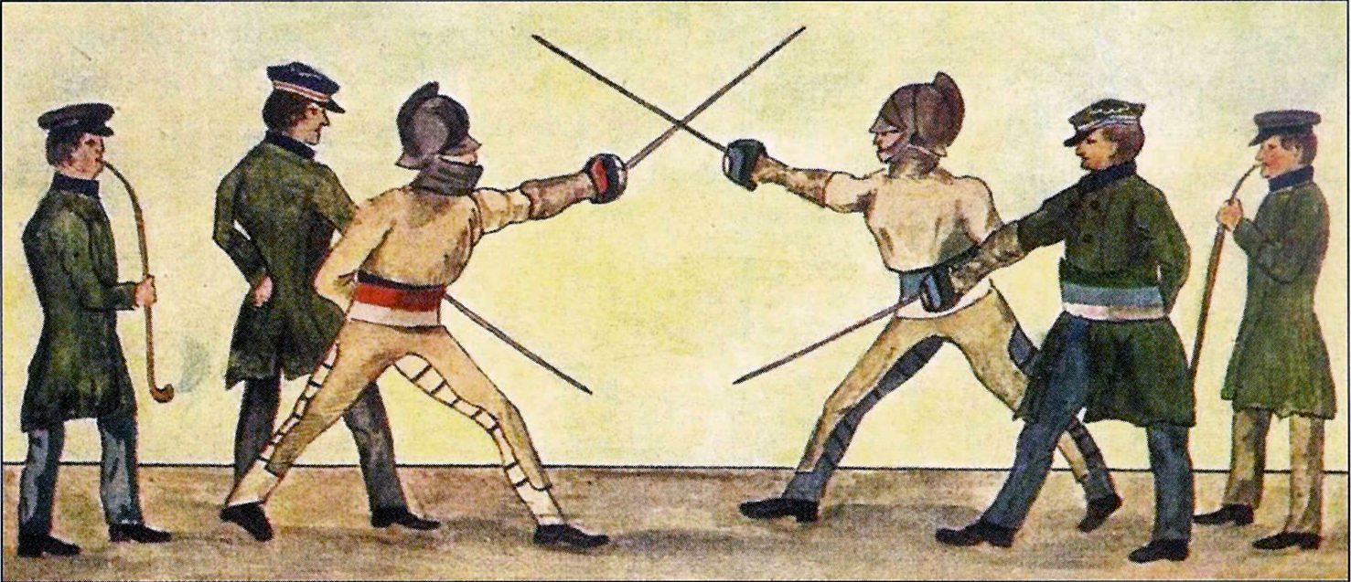 academic fencing of Dorpat (Tartu) fraternity students in the 1820s, Corporation Curonia Dorpat on the right against Corporation Livonia Dorpat on the left, both using a leather helmet which was typical for academic fencing in the Baltic universities